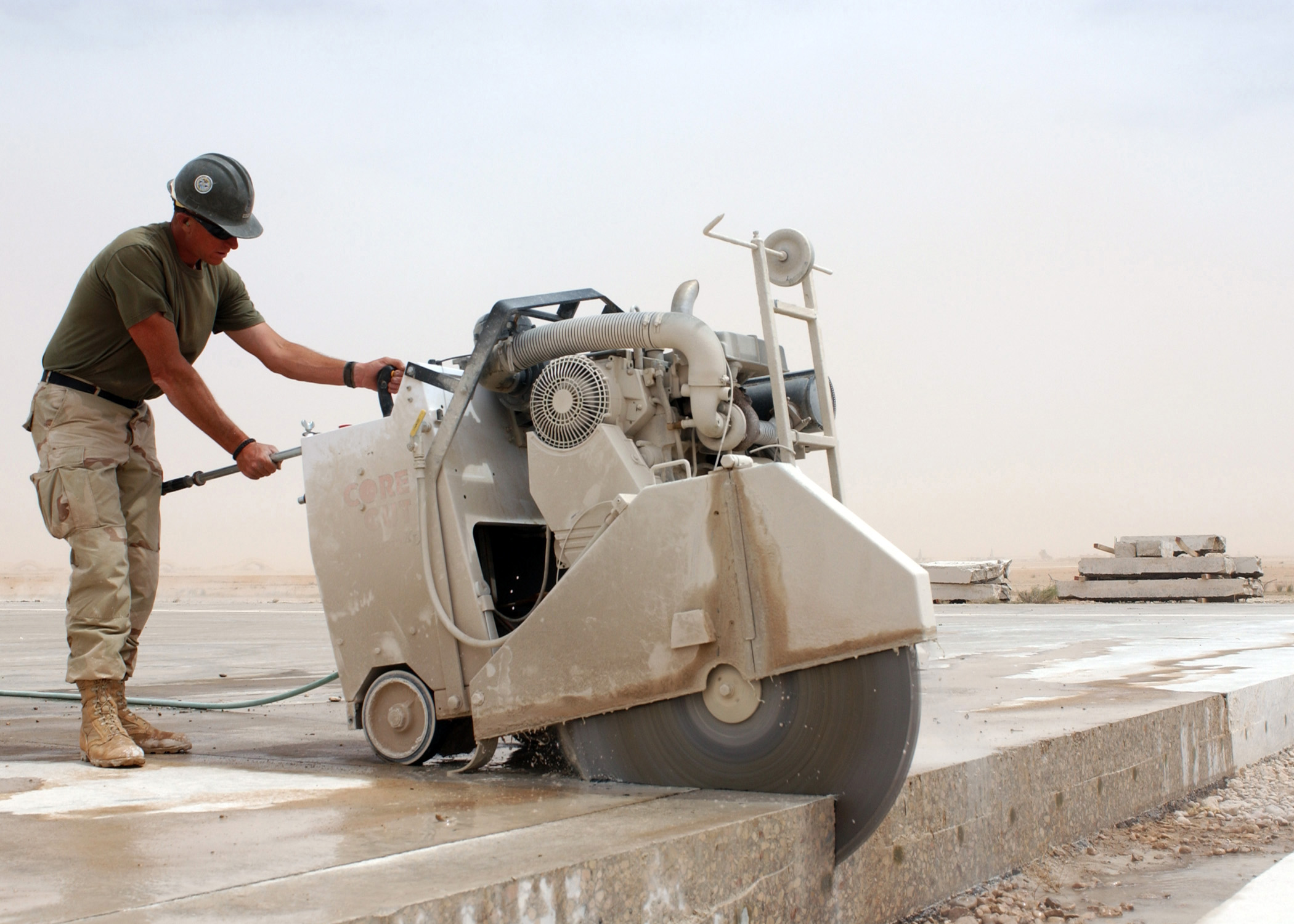 concrete saw; U.S. Navy Builder 1st Class William White, assigned to Naval Mobile Construction Battalion Two Four (NMCB-24), uses a concrete saw to prepare an airfield runway expansion joint trench for repair, at the air base in Al Asad, Iraq. The Seabees of NMCB-24 are currently engaged in a massive airfield runway restoration at the airbase in Al Asad, Iraq. Two and a half miles of the base’s runways are being repaired, which will dramatically increase the base’s capability for air traffic and operations. U.S. Navy photo by Journalist 1st Class Mark H. Overstreet